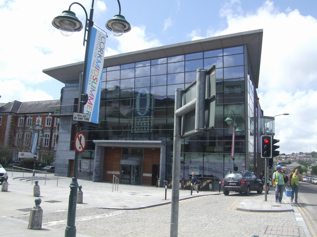 Cork Opera House There has been an Opera House in Cork since 1877, which opened with a performance by Sarah Bernhardt from America. The present building with 1000 seat capacity was built in 1965. The more recent foyer area and exterior brought the building into the 21st century.